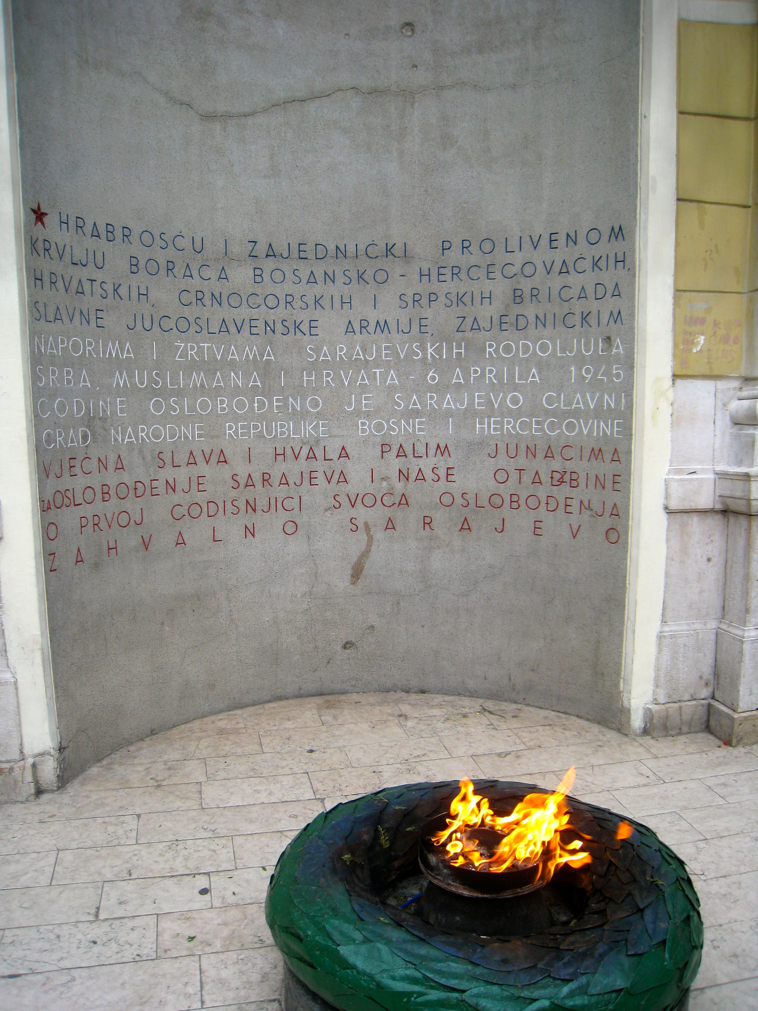 The Eternal Flame monument was dedicated to citizens who died in the Second World War. The inscription reads: With Courage and the Jointly Spilled Blood of the Fighters of the Bosnian-Herzegovinian, Croatian, Montenegrin, and Serbian Brigades of the Glorious Yugoslav National Army; with the Joint Efforts and Sacrifices of Sarajevan Patriots Serbs, Muslims and Croats on the 6th of April 1945 Sarajevo, the Capital City of the People's Republic of Bosnia and Herzegovina was liberated. Eternal Glory and Gratitude to the Fallen Heroes of the liberation of Sarajevo and our Homeland, On the First Anniversary of its Liberation-- a Grateful Sarajevo